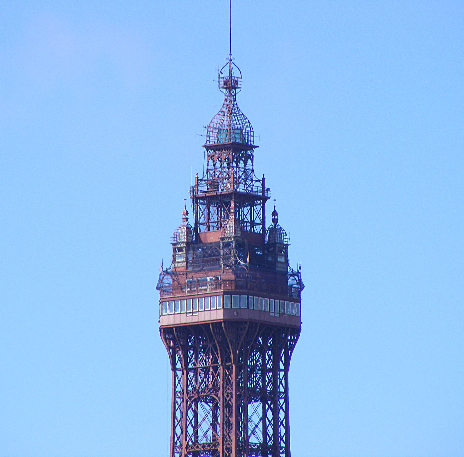 Blackpool Tower: main pod